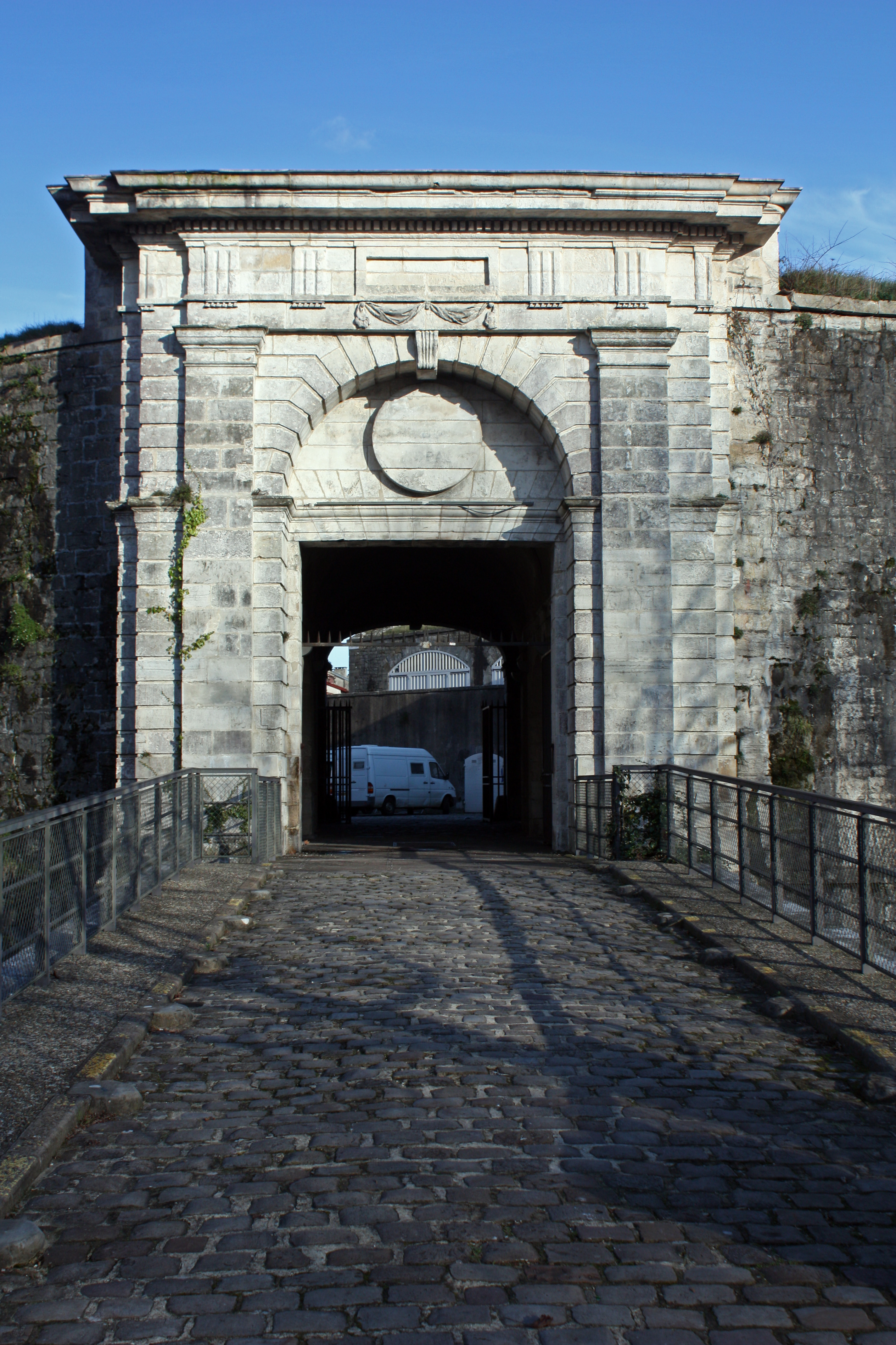 The door of Spain is integrated into a redoubt housing a guardroom